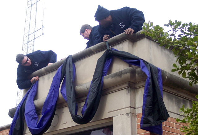 Members of the Kirkwood (Mo.) Fire Department hang bunting above the entrance to the Kirkwood Police Department one day after Charles Lee "Cookie" Thornton went on a shooting spree that left six dead and two wounded at Kirkwood City Hall.